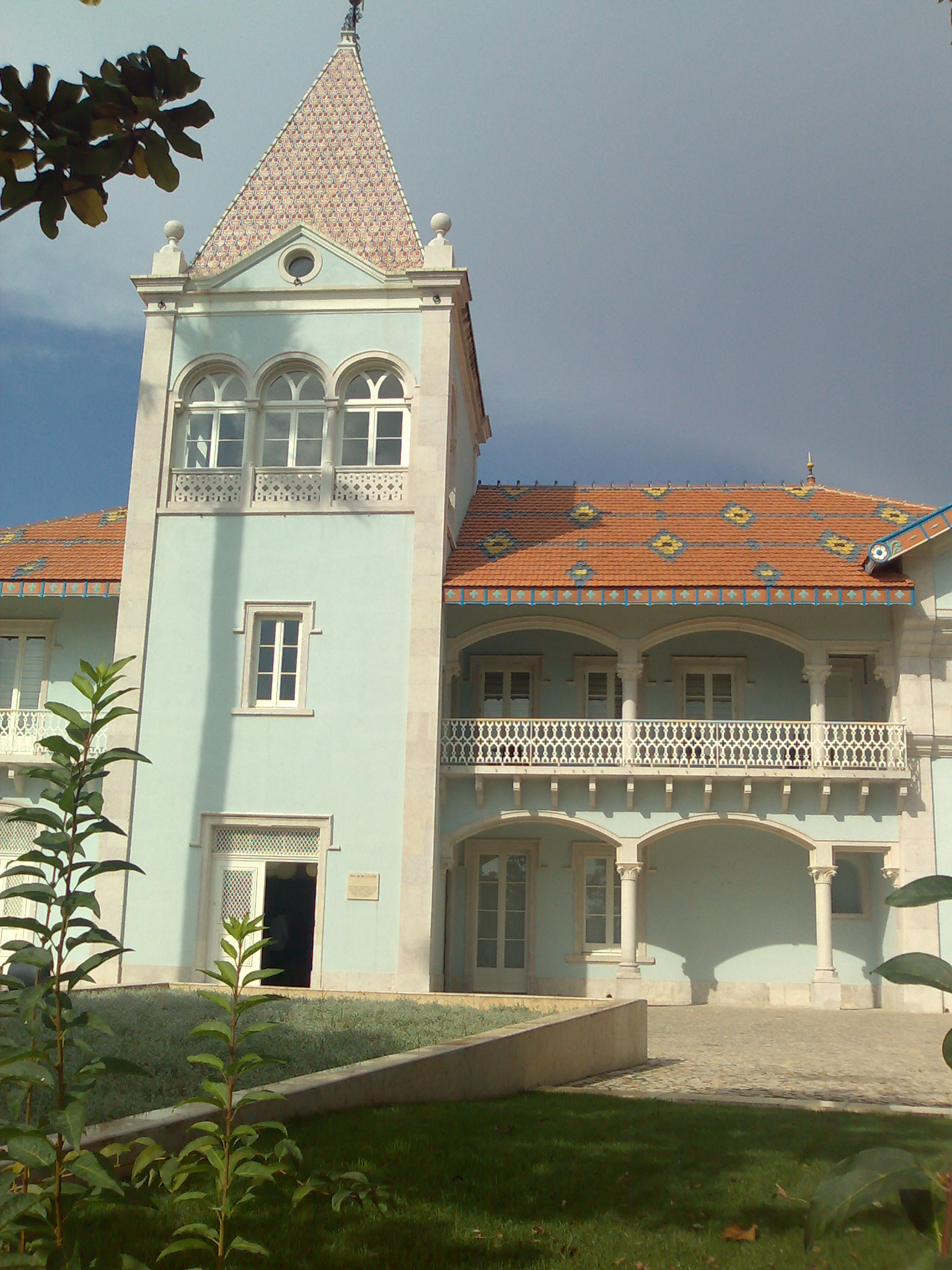 Palácio Anjos, Algés, Portugal